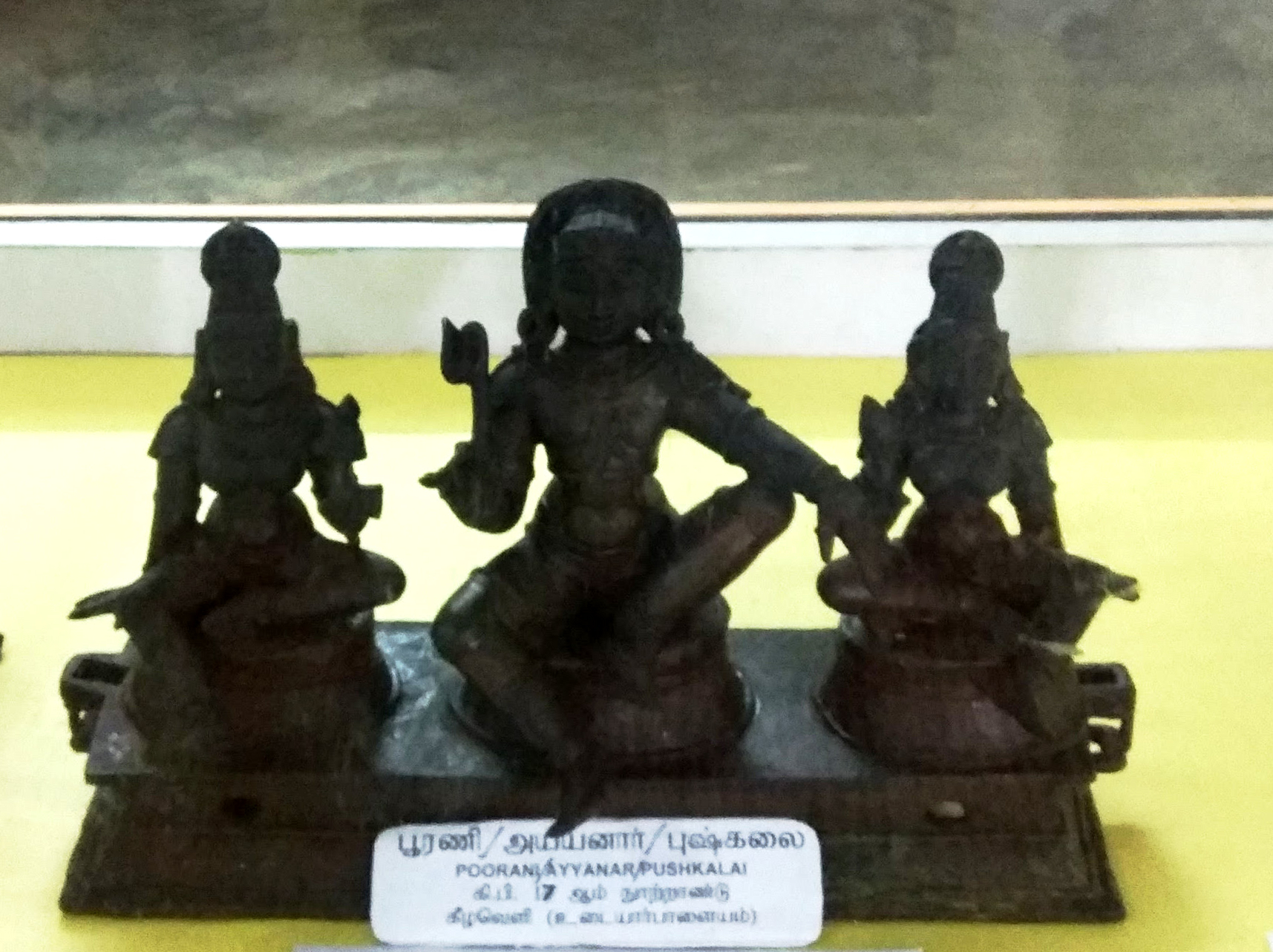 Ayyanar seated with Poorna Pushkala, 7th c. CE. From Historical Museum of Rajendra Chola, Gangaikondacholapuram, Peramablloor District, Tamilnadu, India.